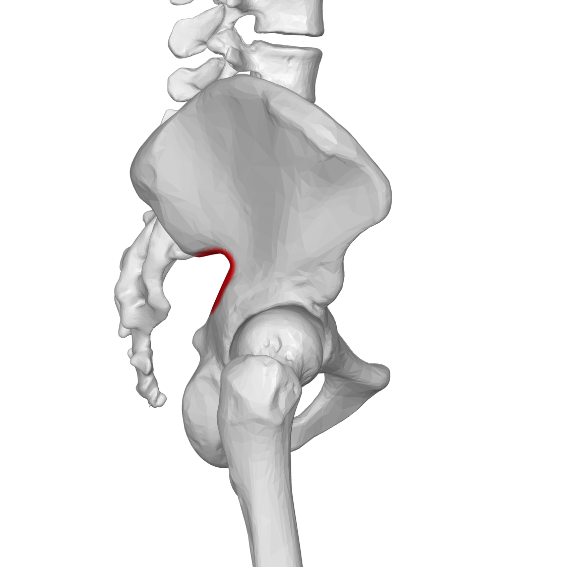 Greater sciatic notch. Shown in red.